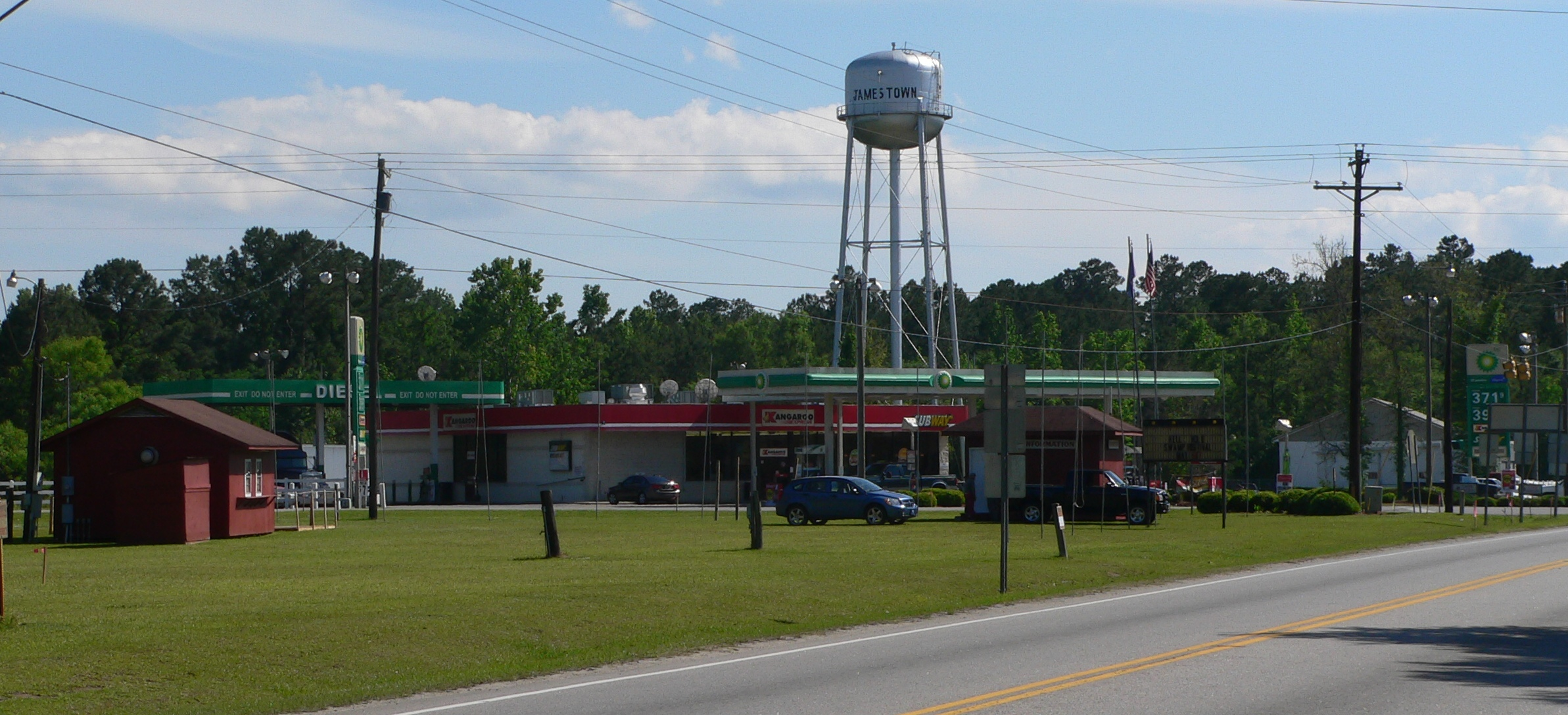 Jamestown, South Carolina. The road in the photo is the combined U.S. Highway 17A and South Carolina Highway 41.